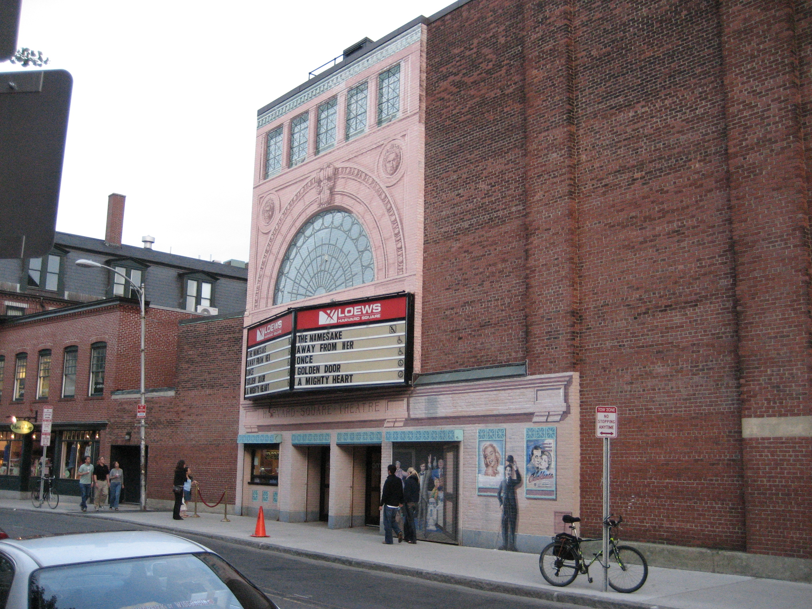 Church Street in Cambridge, Massachusetts: Cinema in the Harvard Square neighborhood